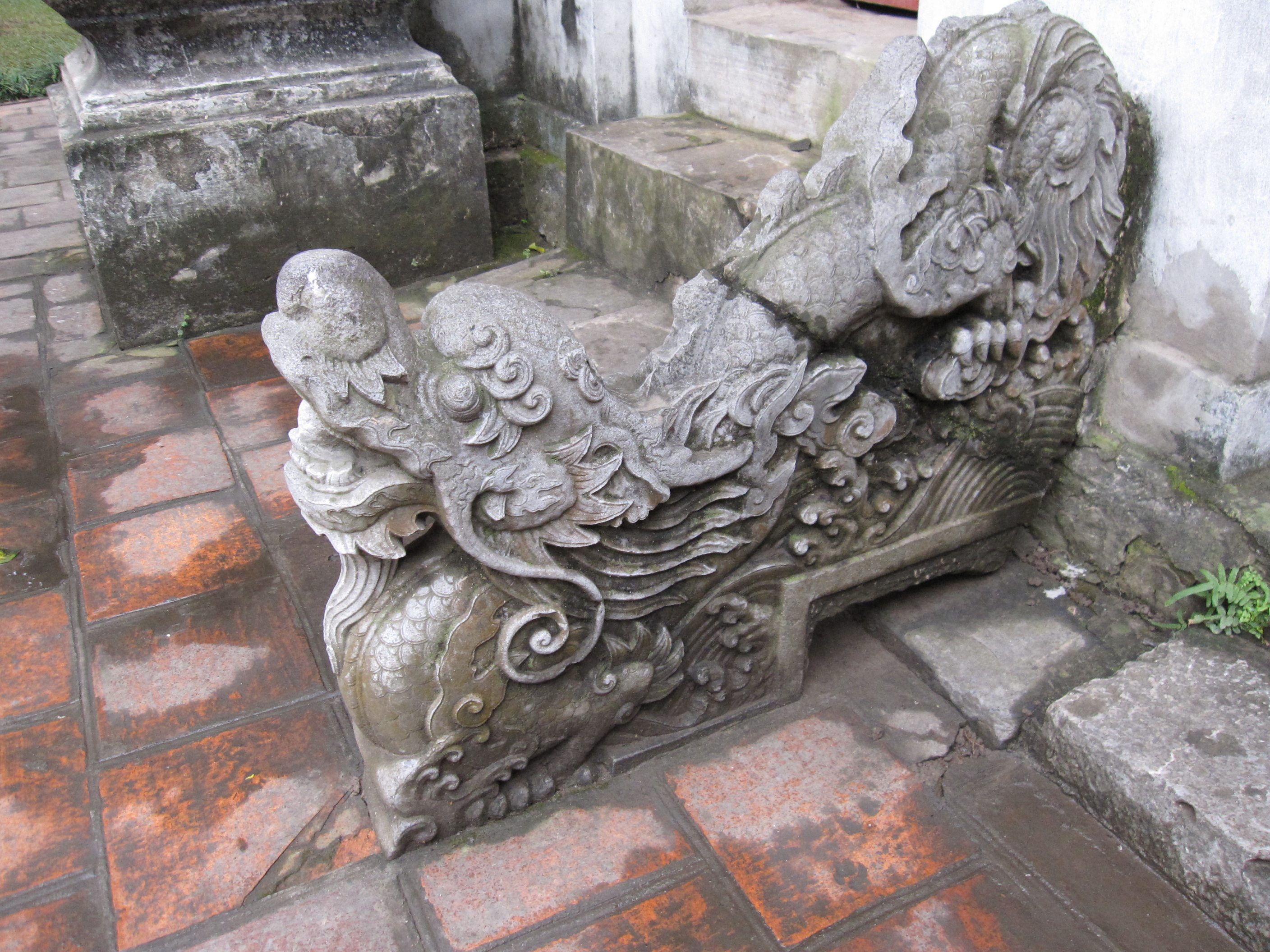 Gate of the Temple of Literature, Hanoi.